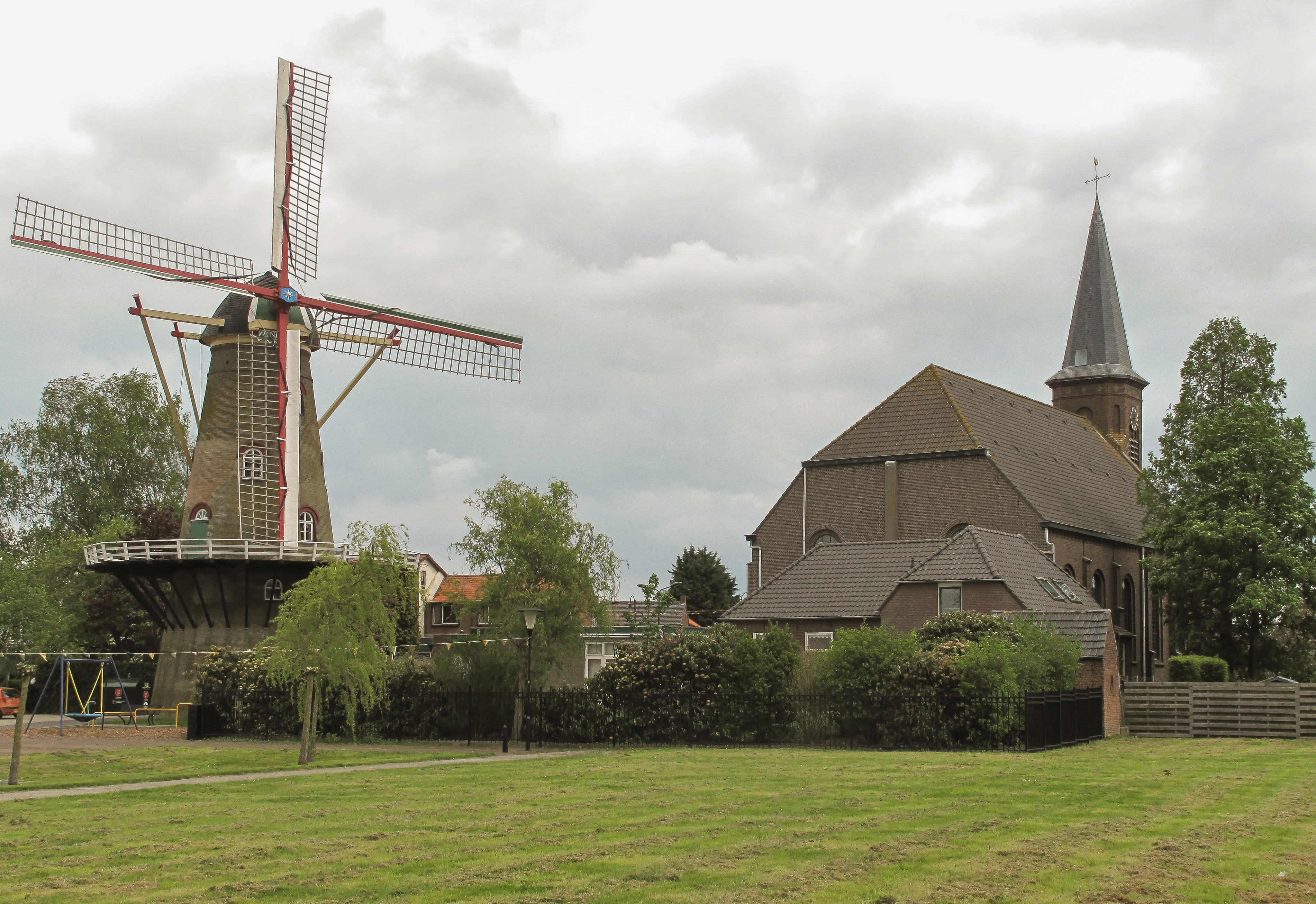 Hoek, windmill and church